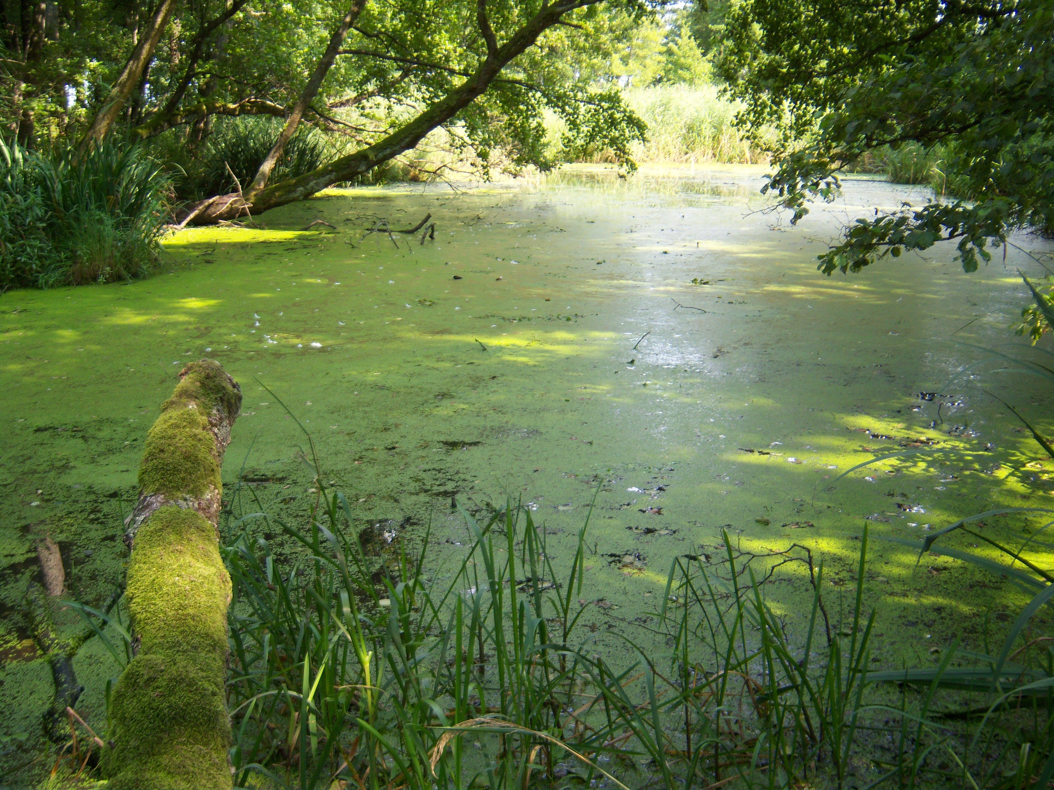 Bog in Ožkų Cape, by Preila, Neringa, Lithuania